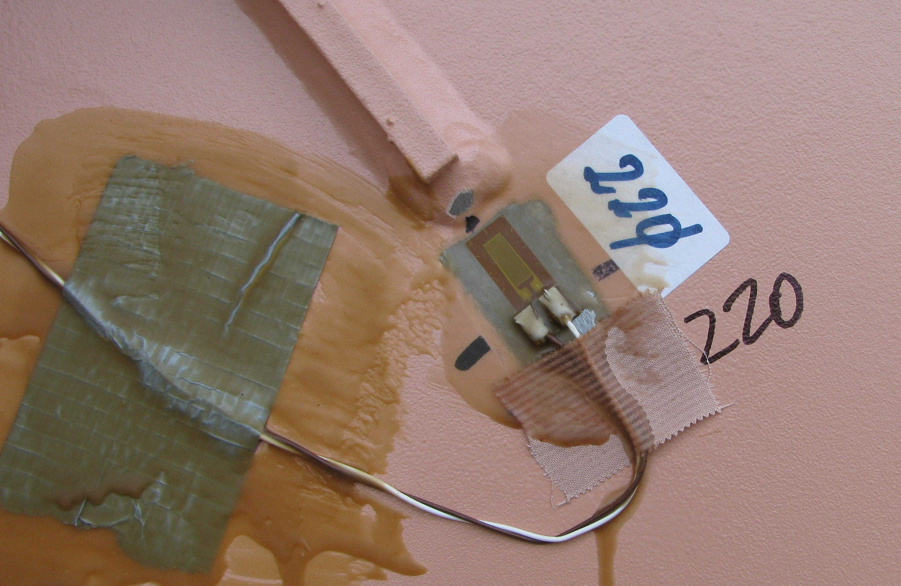 Strain gauge on a steel structure